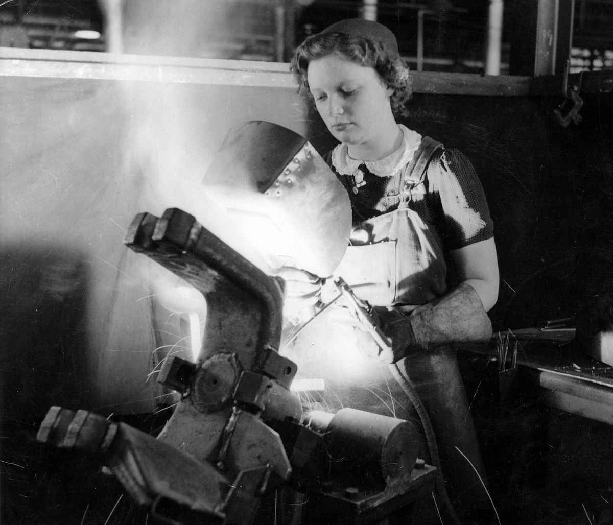 A young woman arc welding part of an anti-tank gun in a munitions factory in South Australia in 1943. Photographer: Smith, D. Darian